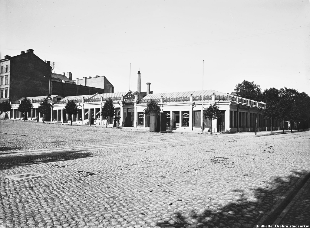 The building and shop complex "Atterlingska basarerna" in central Örebro, Sweden